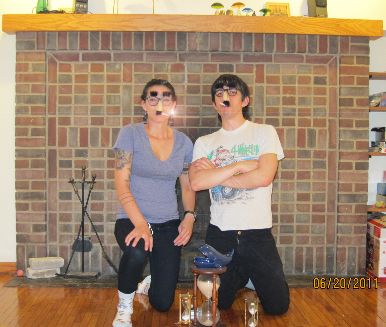 Groucho glasses disorder.